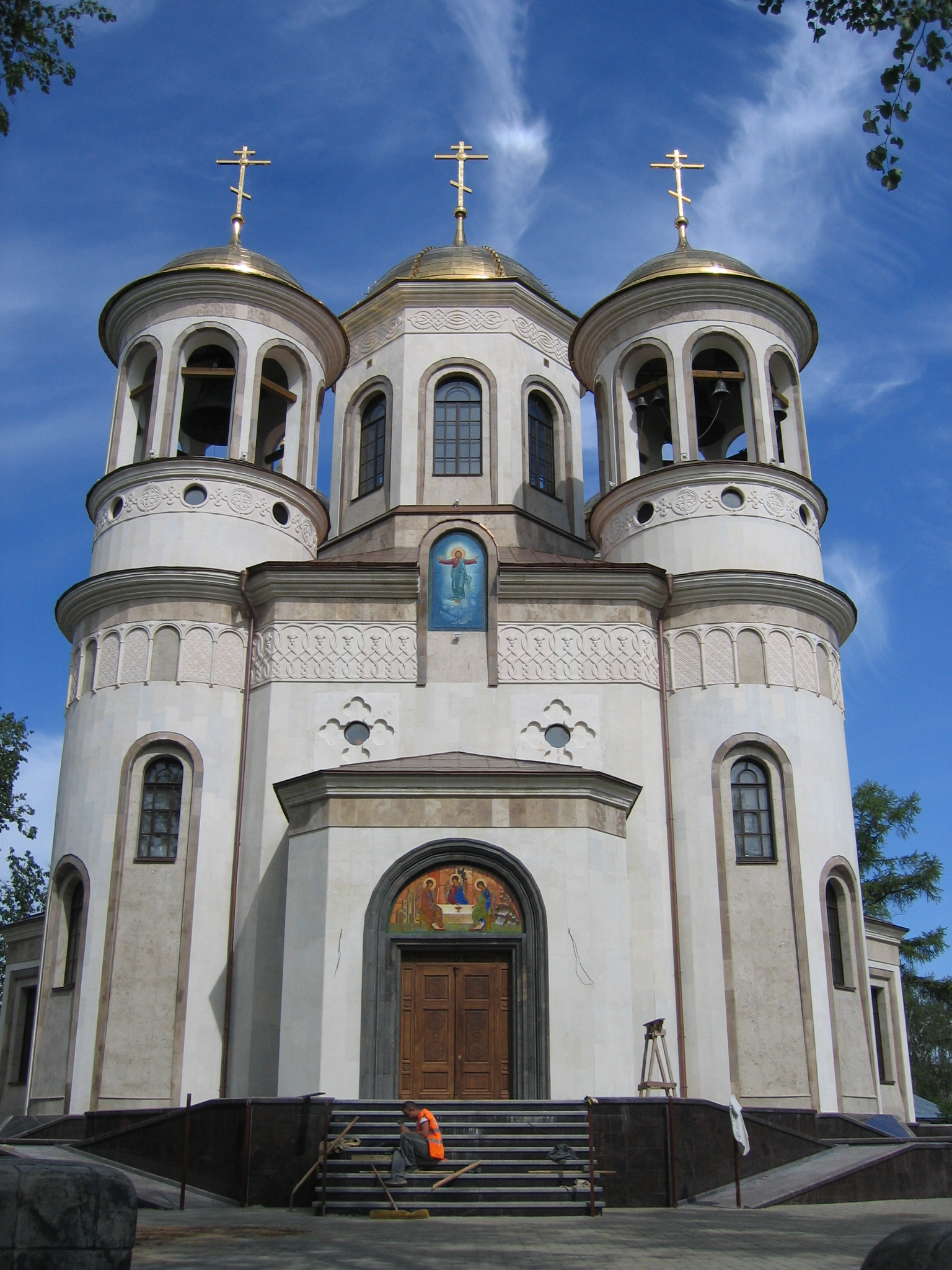 Ascension Cathedral in Zvenigorod, Moscow Oblast